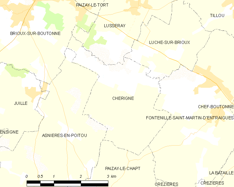 Map of French municipality Chérigné